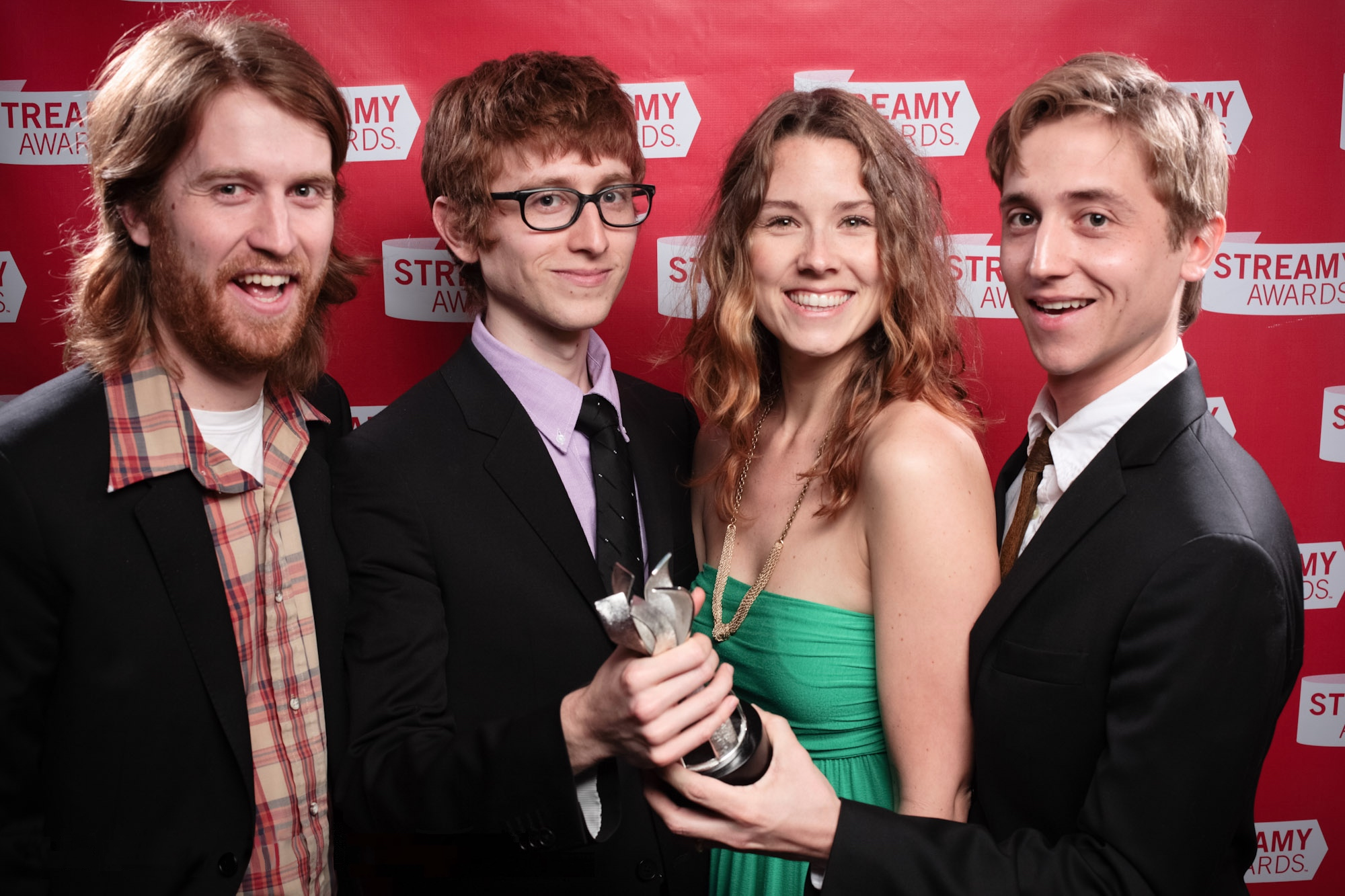 This is a new version of File:Streamy Awards Photo 1239 (4513946510).jpg with the watermark removed. Areas behind the watermark were manually reconstructed.